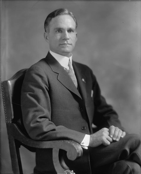 Former United States Representative from Alabama Lamar Jeffers.